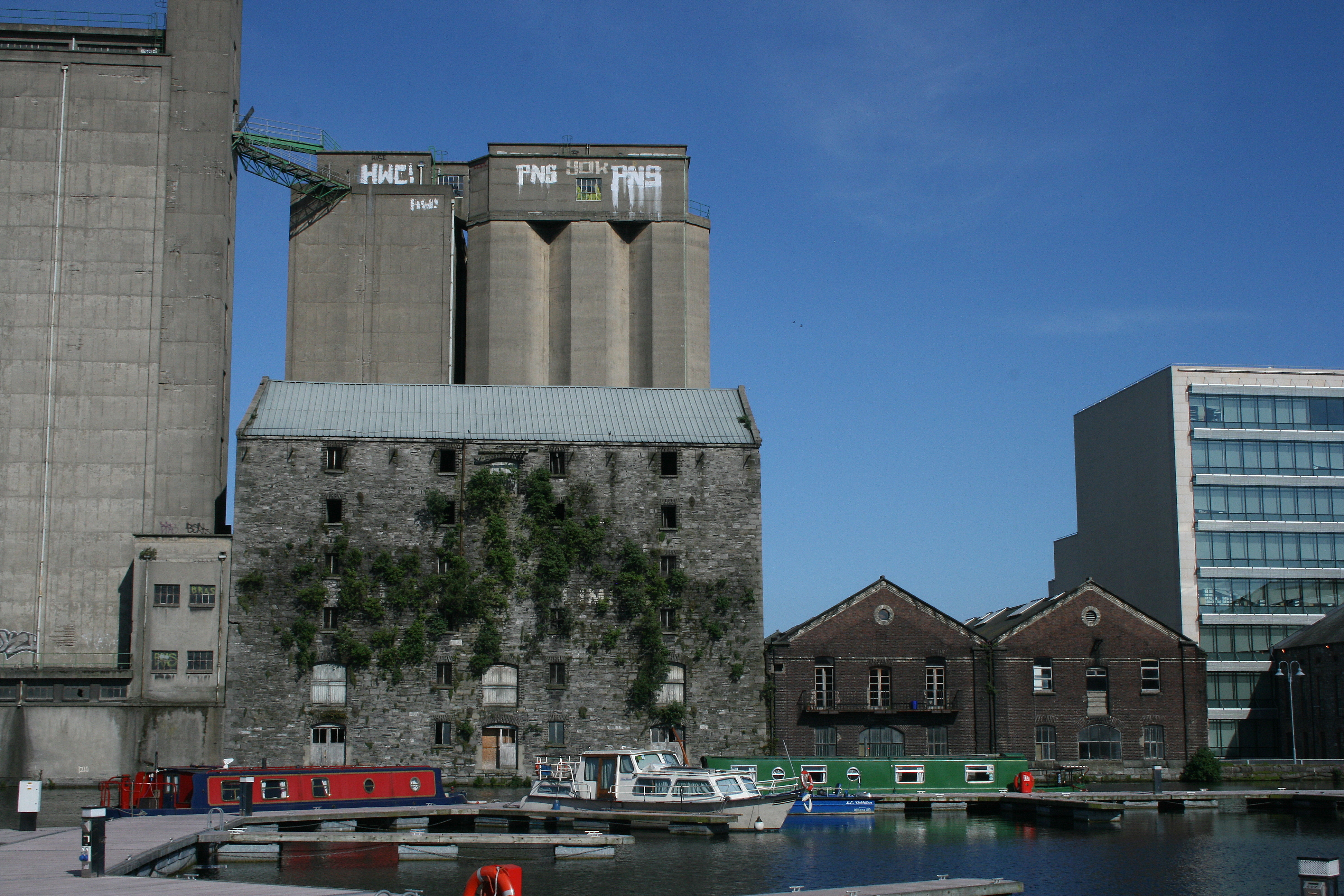 Boland's Mill and building from various eras on the western basin of Grand Canal Dock